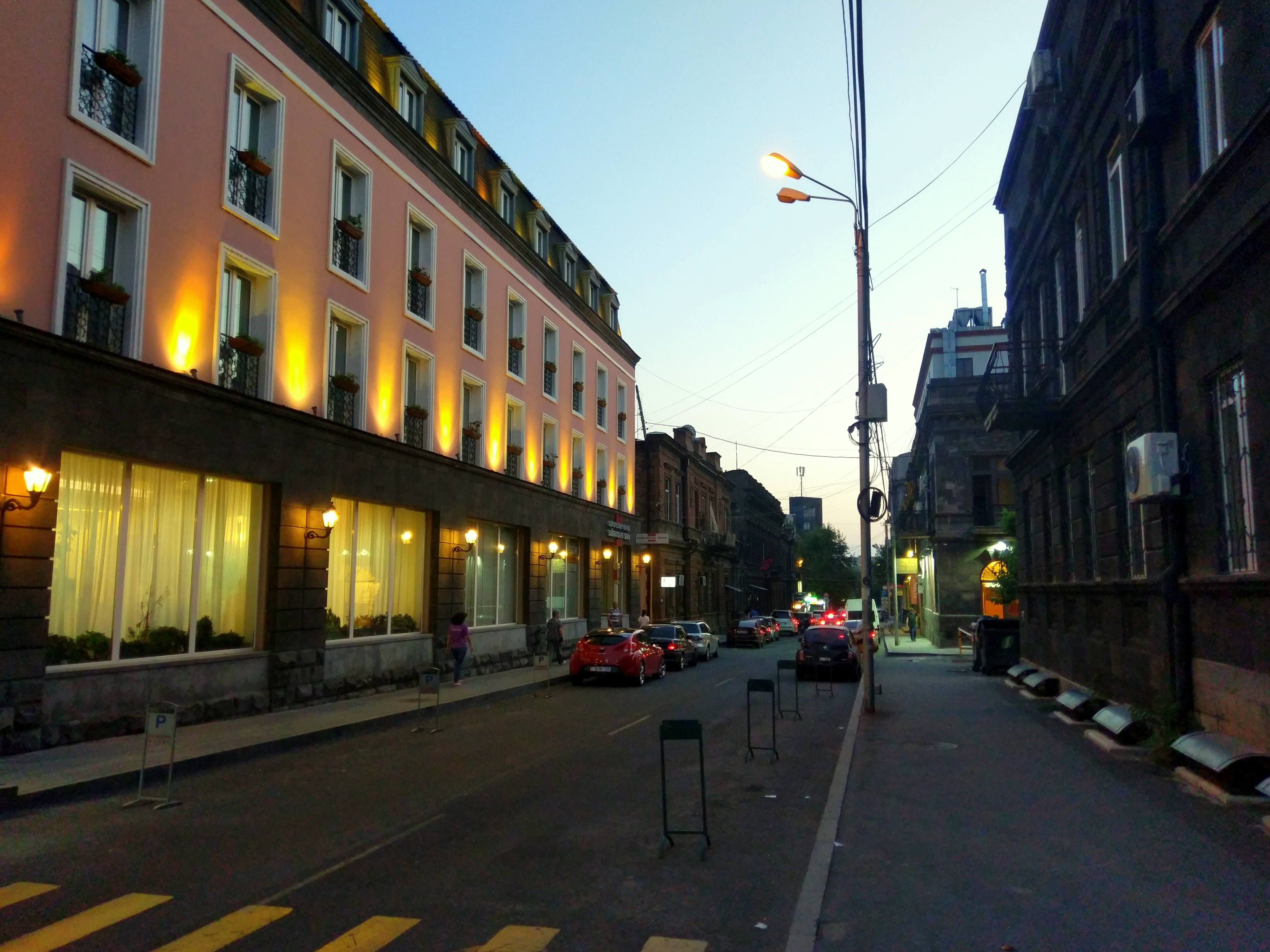 Europe Hotel, Yerevan